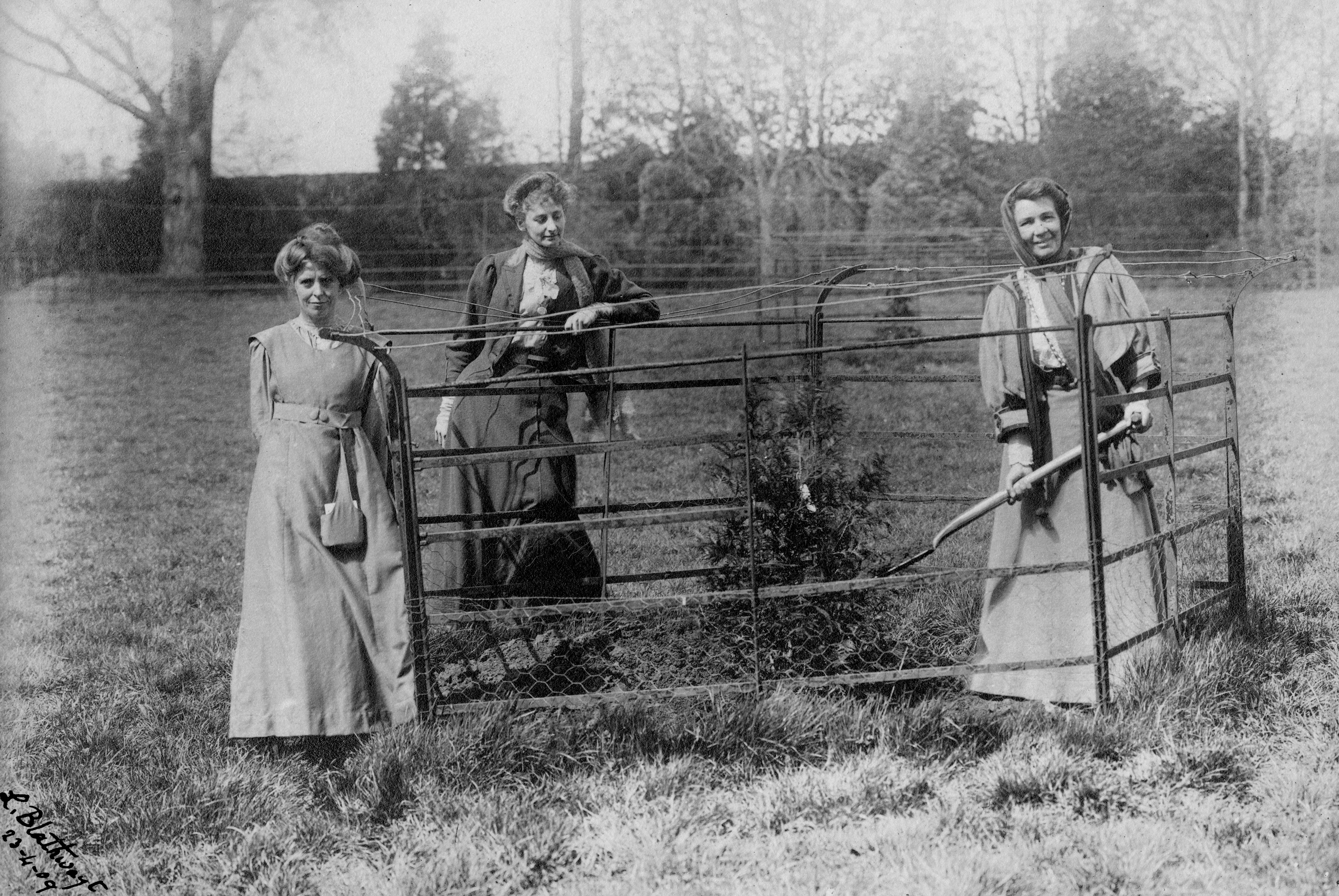 7JCC/O/02/079Photograph, printed, paper, monochrome, mounted on card, Emmeline Pethick Lawrence planting a tree, watched by Annie Kenney and Constance Lytton; manuscript inscription on front 'L Blathwayt 23-4-09', and on reverse 'Mrs PL, Lady Constance Lytton sister of present Earl, Annie Kenny [sic], now Mrs Kenny Taylor'